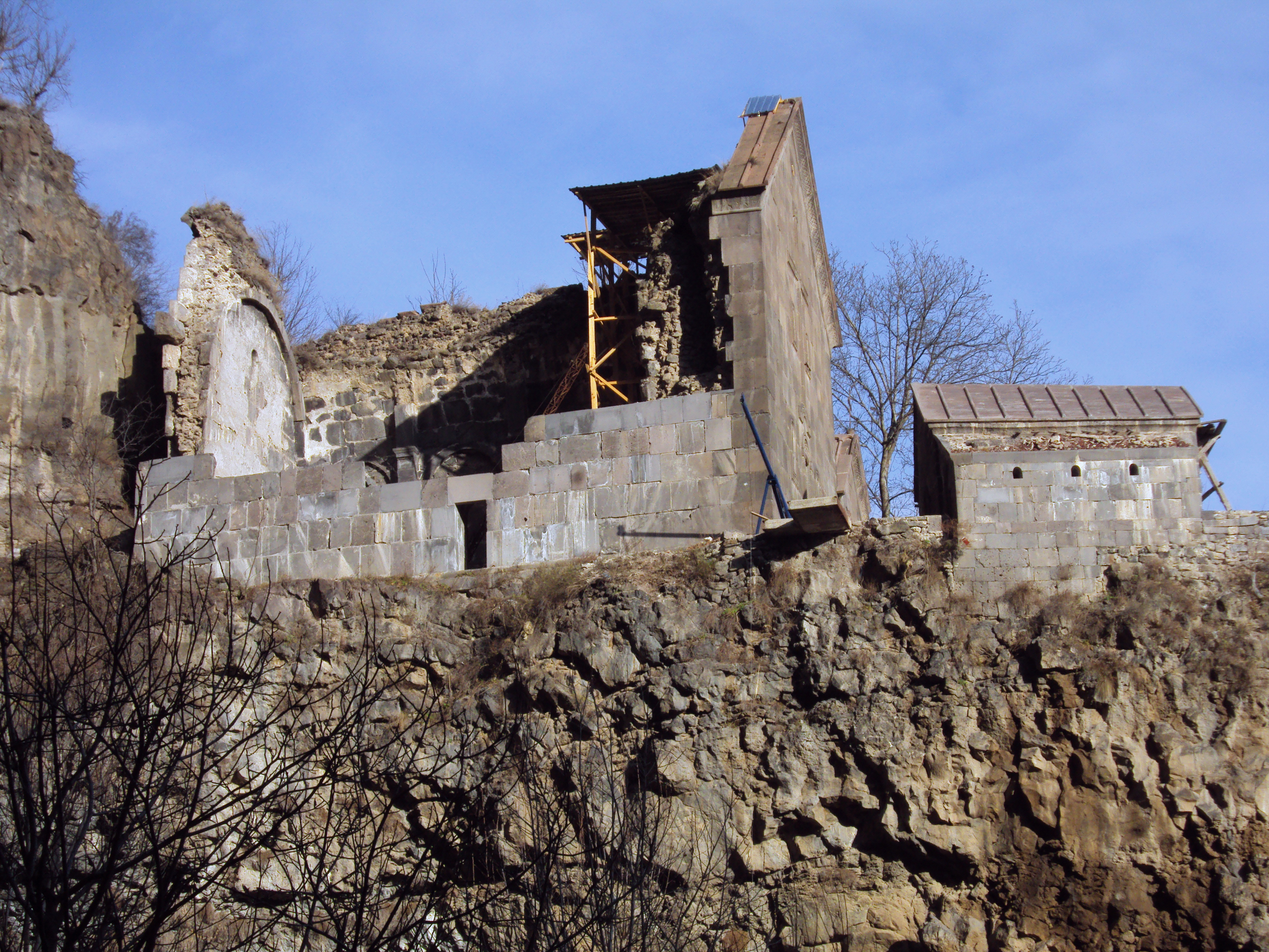 Kobayr (Kober) monastery complex, 12-13cc.